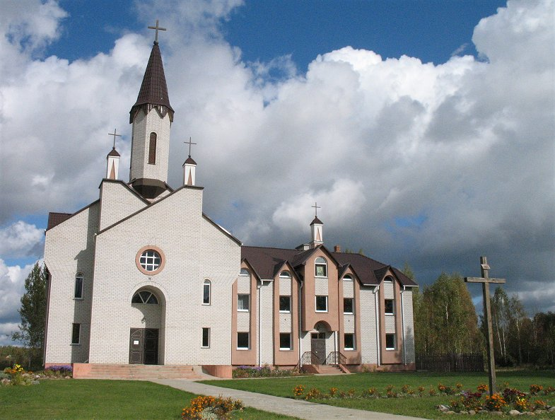 Catholic church located next to the health center, in Asipovichy (Асiповiчы; Осиповичи) in Mogilev region.